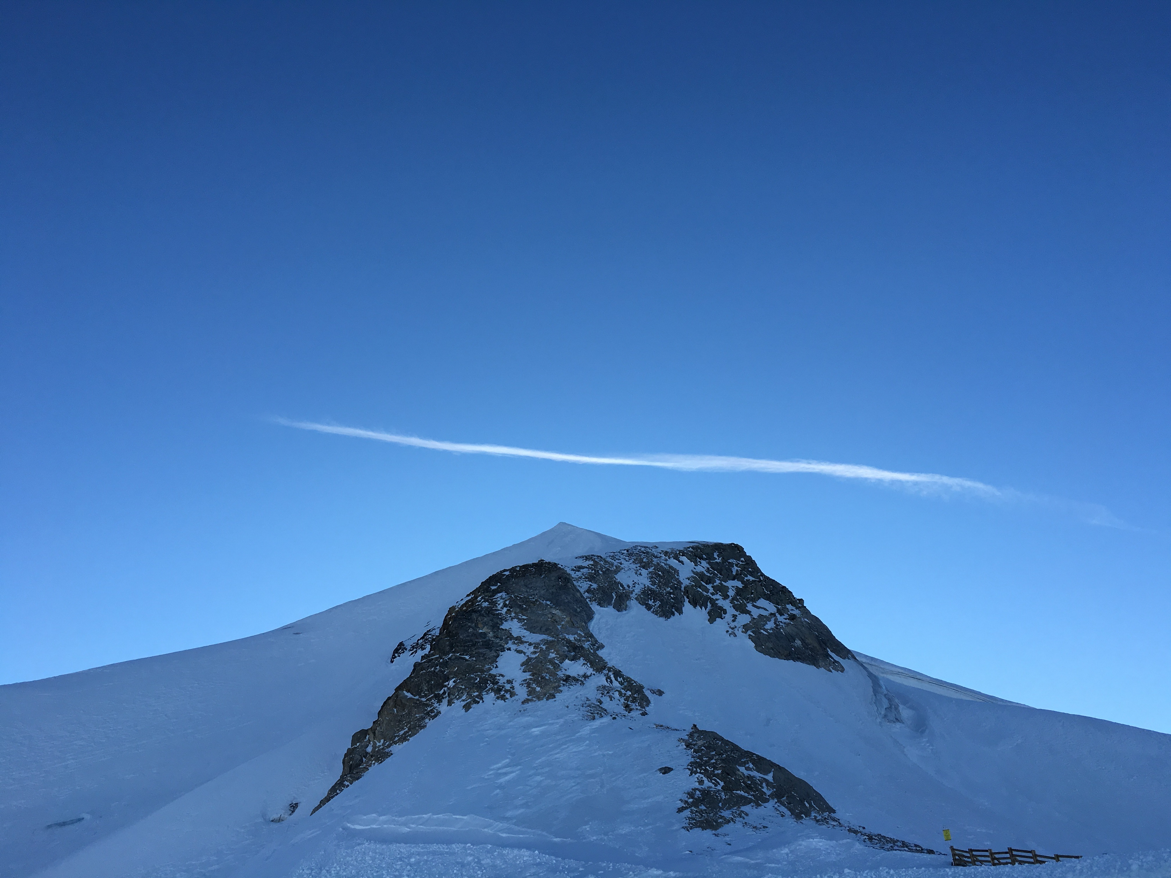 The Grande Motte at the top of the Espace Killy in Tignes